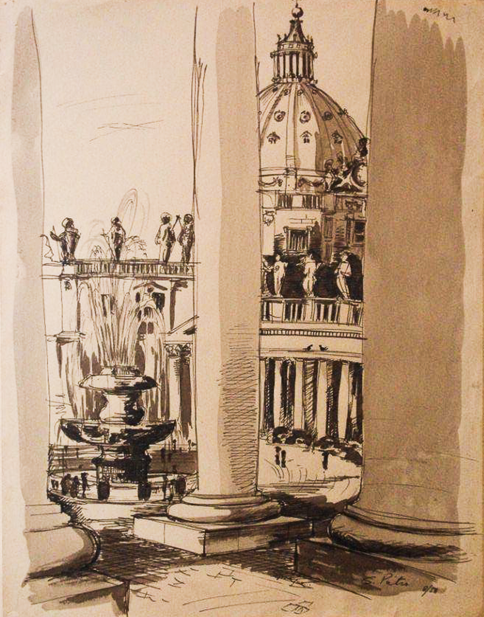 Ink pen and wash drawing of St Peter's Rome by Ian Sprague 1958; photographed in a private collection at Enfield Victoria